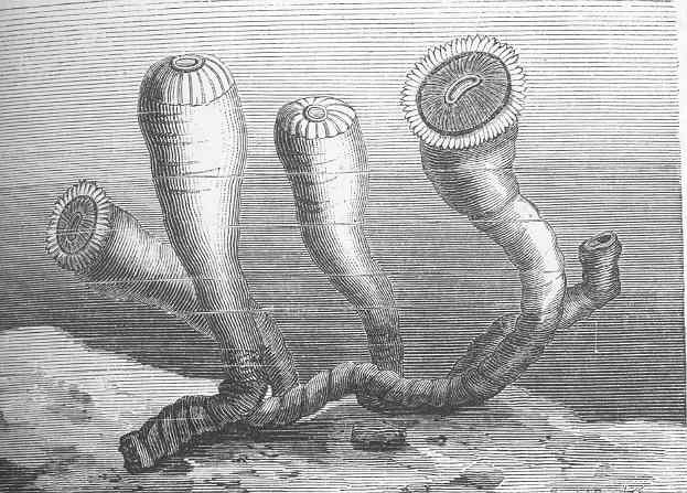 Zoanthus socialis (Cuvier) Subject: Corals, Zoanthus Tag: Invertebrates